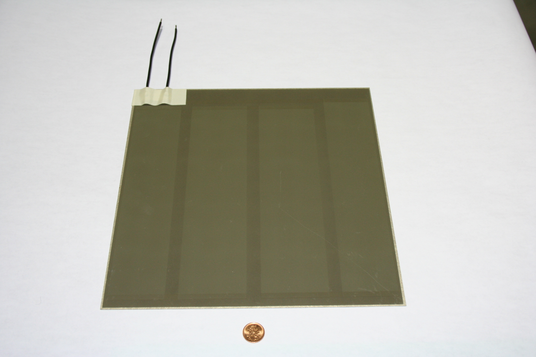 This picture represents a thick film heating element, printed on a low profile, 0.5mm thick Muscovite mica sheet. It sits besides a Canadian penny for the size comparison. This heater was designed and manufactured at Datec Coating Corporation, Mississauga, Canada